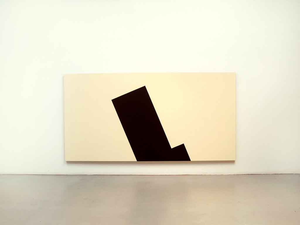 Cimabue 2002, acrílico sobre lienzo, 147 x 287 cm.